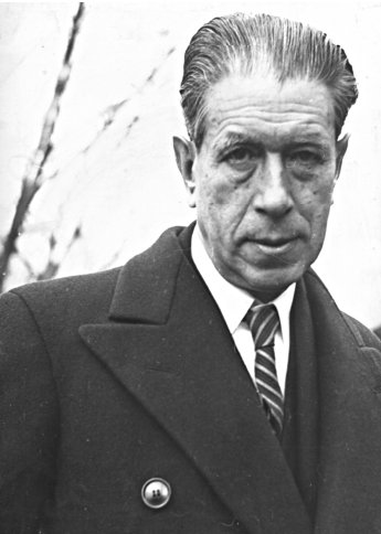 Bolivian writer and politician Alcides Arguedas